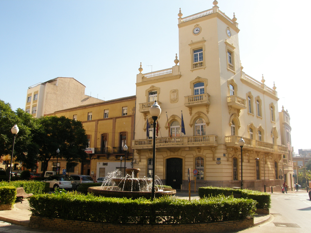 La Vall d´Uixo town hall